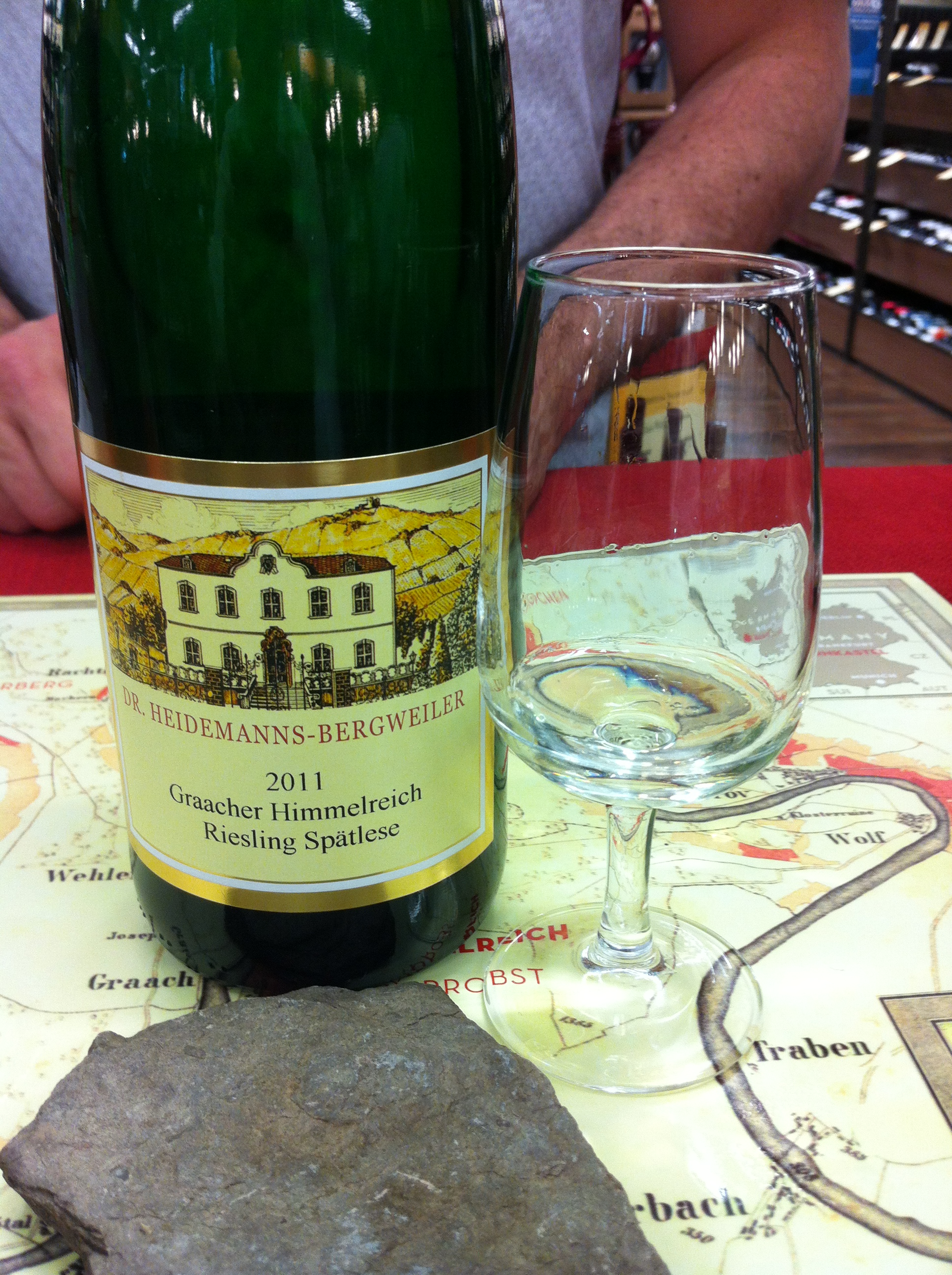 Spatlese level German Riesling from the Middle Mosel village of Graach